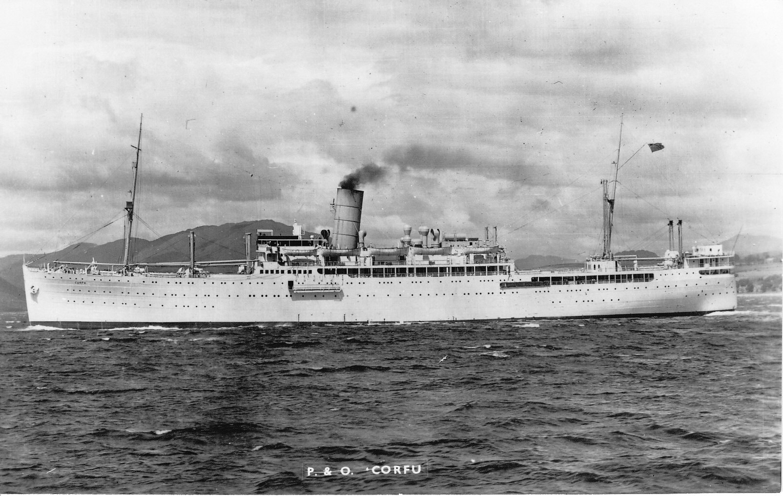 A picture of the P & O Corfu in 1956